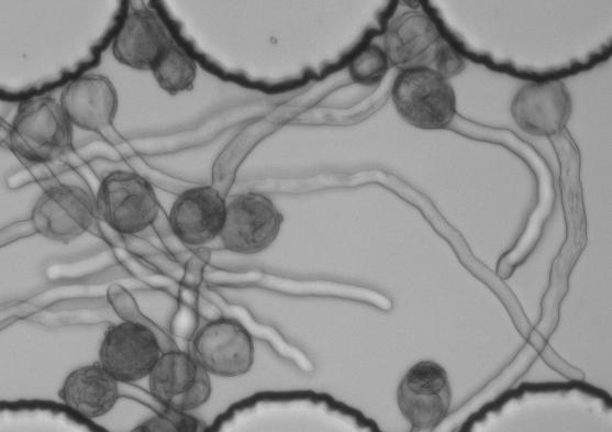 Picture of several pollen grains (camellia japonica) and their respective pollen tubes growing.